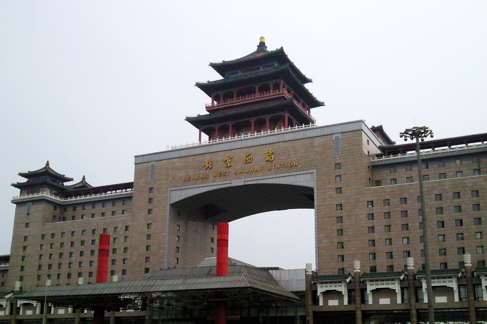 North house of Beijing West Railway Station